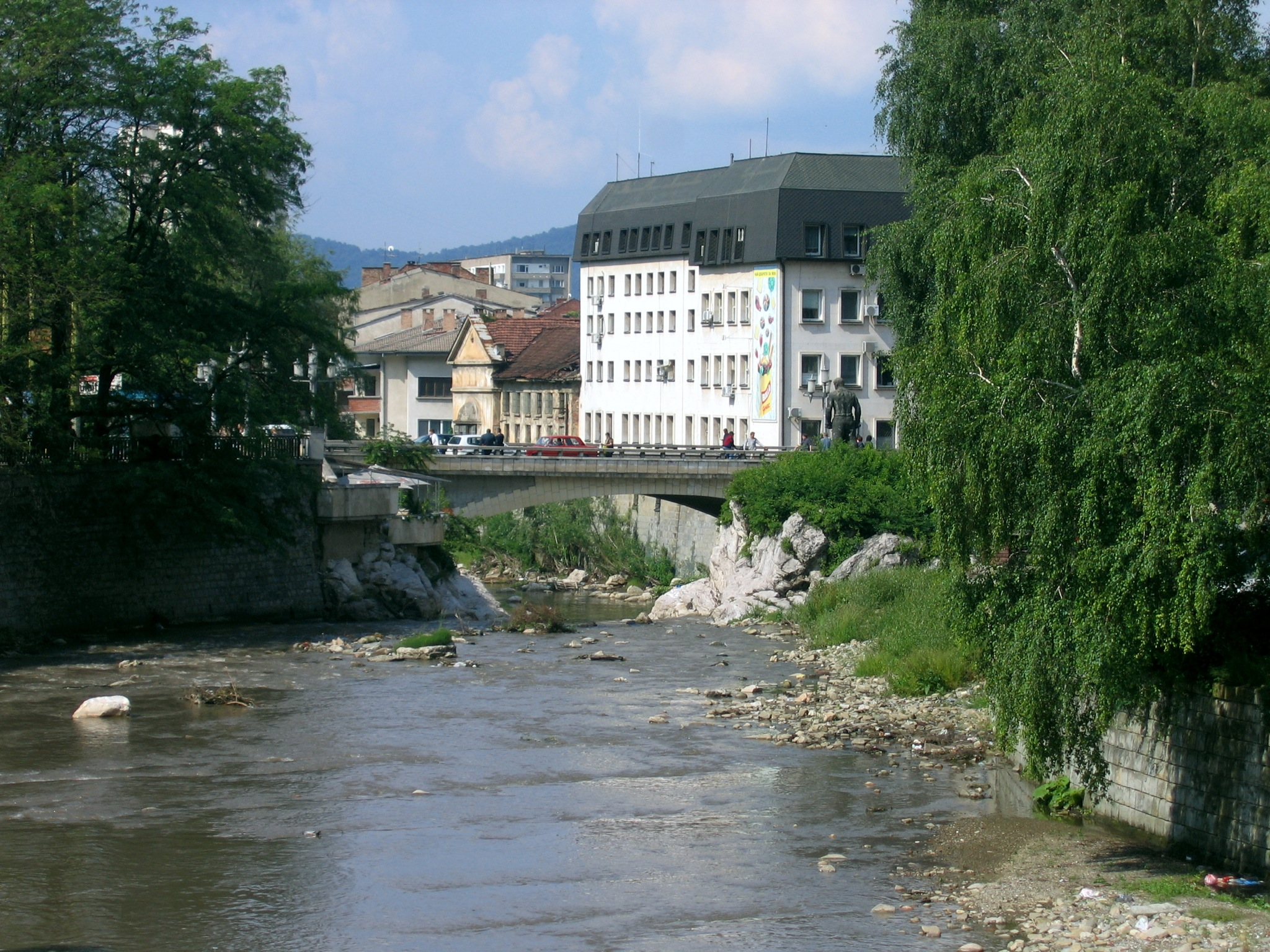 The Bridge of the Yoke, Gabrovo